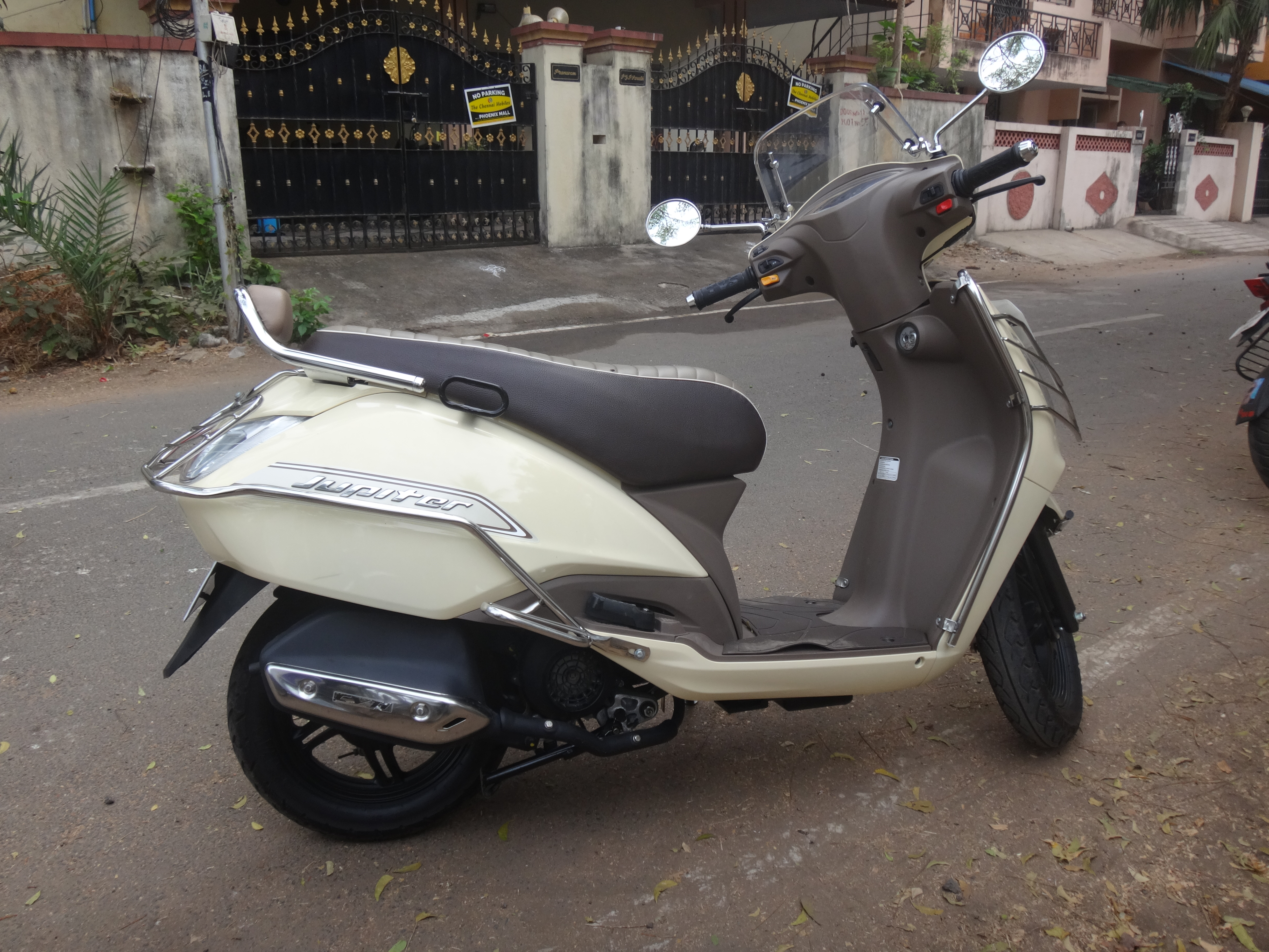 The side view of one scooter parked on a road